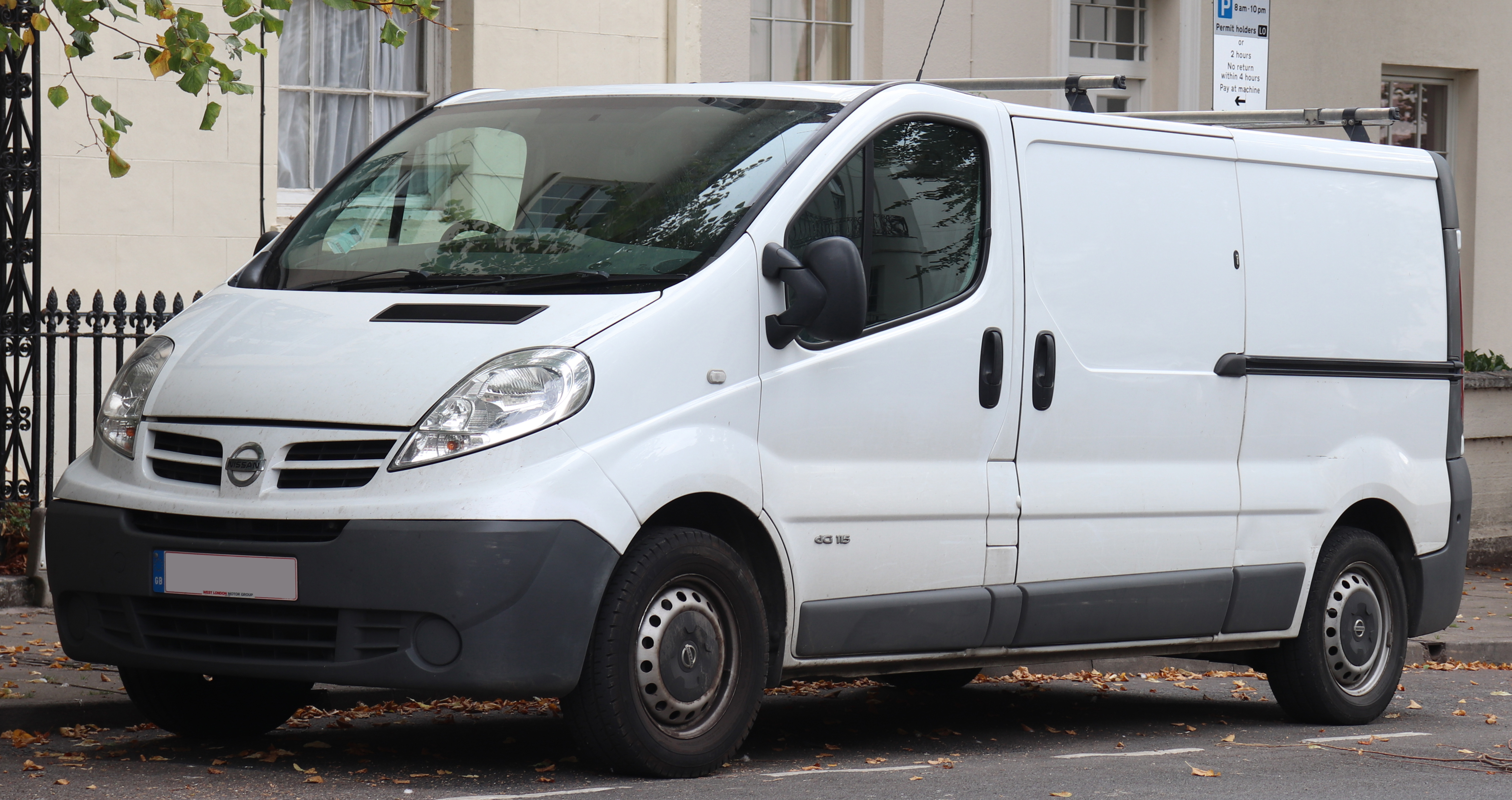 2012 Nissan Primastar SE LWB DCi 2.0 Front Taken in Leamington Spa